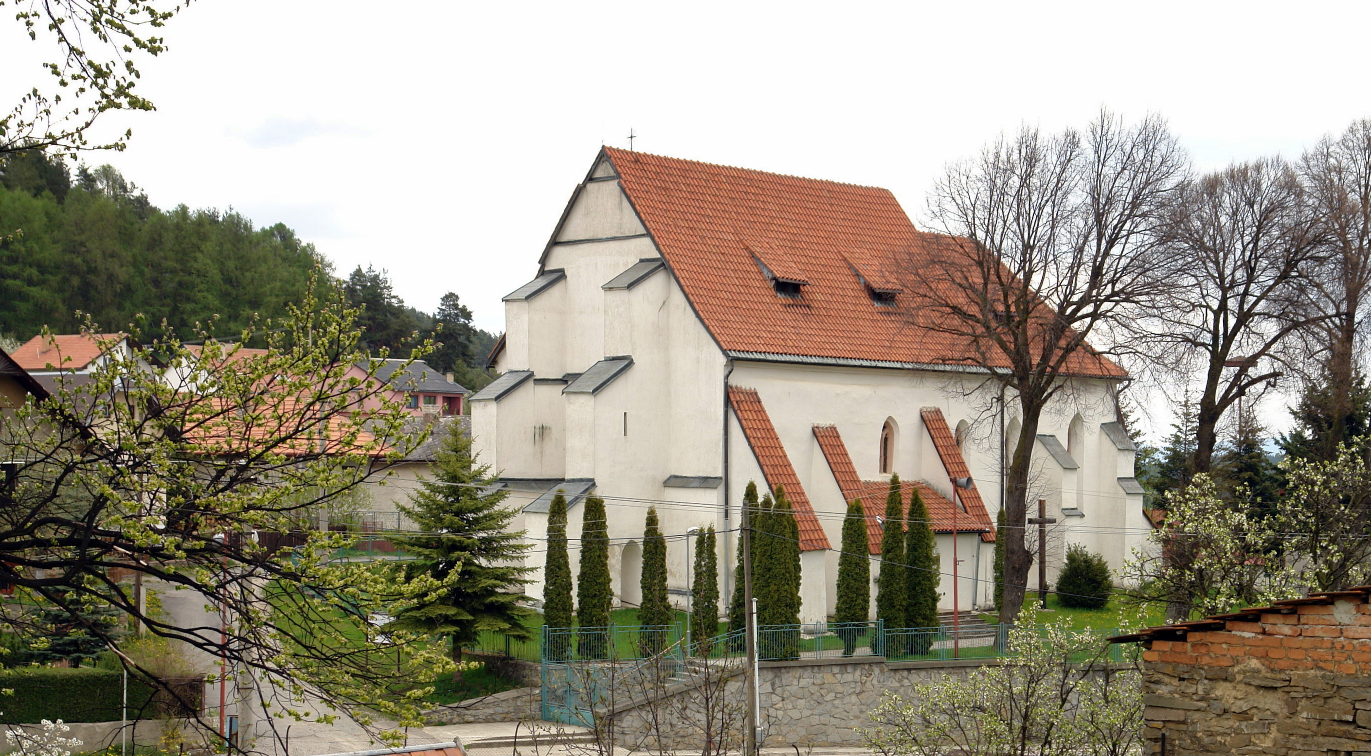 Szepesdaróc, Szent Erzsébet-templom